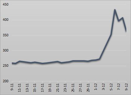 Global Dining's stock price chart from 9 November 2016 to 9 December 2016 Data